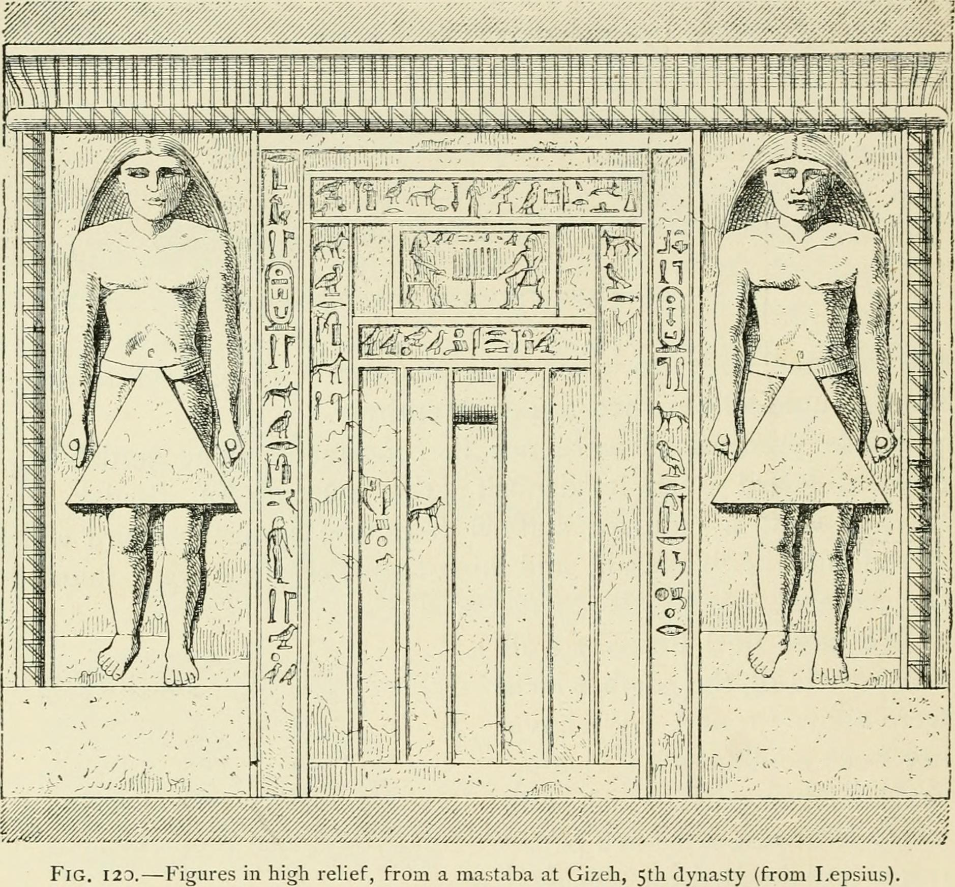 Title: A history of art in ancient Egypt Year: 1883 (1880s) Authors: Perrot, Georges, 1832-1914 Chipiez, Charles, 1835-1901 Armstrong, Walter, Sir, 1850-1918 Subjects: Art -- Egypt History Egypt -- Antiquities Publisher: London : Chapman and Hall Text Appearing Before Image: FiG. 119.—Transverse section through theserdabs. i8o A History of Art in Ancient Egypt. platform, or roof, of the mastaba (Fig. 122). As there was neverany staircase to a mastaba either within or without, it will be seenthat the well must have been a very inaccessible part of the tomb.In one single instance, namely, in the tomb of Ti, the well is sunkfrom the floor of the largest of the internal chambers, but whetherit opened upon the roof or upon the floor of the chamber, it wasalways closed with the utmost care by means of a large flat stone. Text Appearing After Image: The well is generally situated upon the major axis of themastaba, and, as a rule, nearer to the north than to the south. Itsdepth varies, but, on an average, it is about forty feet. Nowand then, however, it has a depth of sixty-five or even eightyfeet. As the well begins at the platform and ends in the rockcarved mummy chamber, it follows that it passes vertically firstthrough the mastaba, secondly through the rock upon which themastaba is founded. The built part of the well is carefully The Tomb under the Ancient Emph^e. i8i constructed of large and perfect stones, and in this we find one ofthe distinguishing characteristics of the tombs of the ancientempire. In the tomb of Ti the well takes the form of aninclined plain like a passage in the pyramids. In the commonform of well the mum.my pit could only be reached by means ofropes, When the bottom of the well is reached a gaping passageis seen in the rock which forms its southern wall. This passage,which is not high enough to allow on